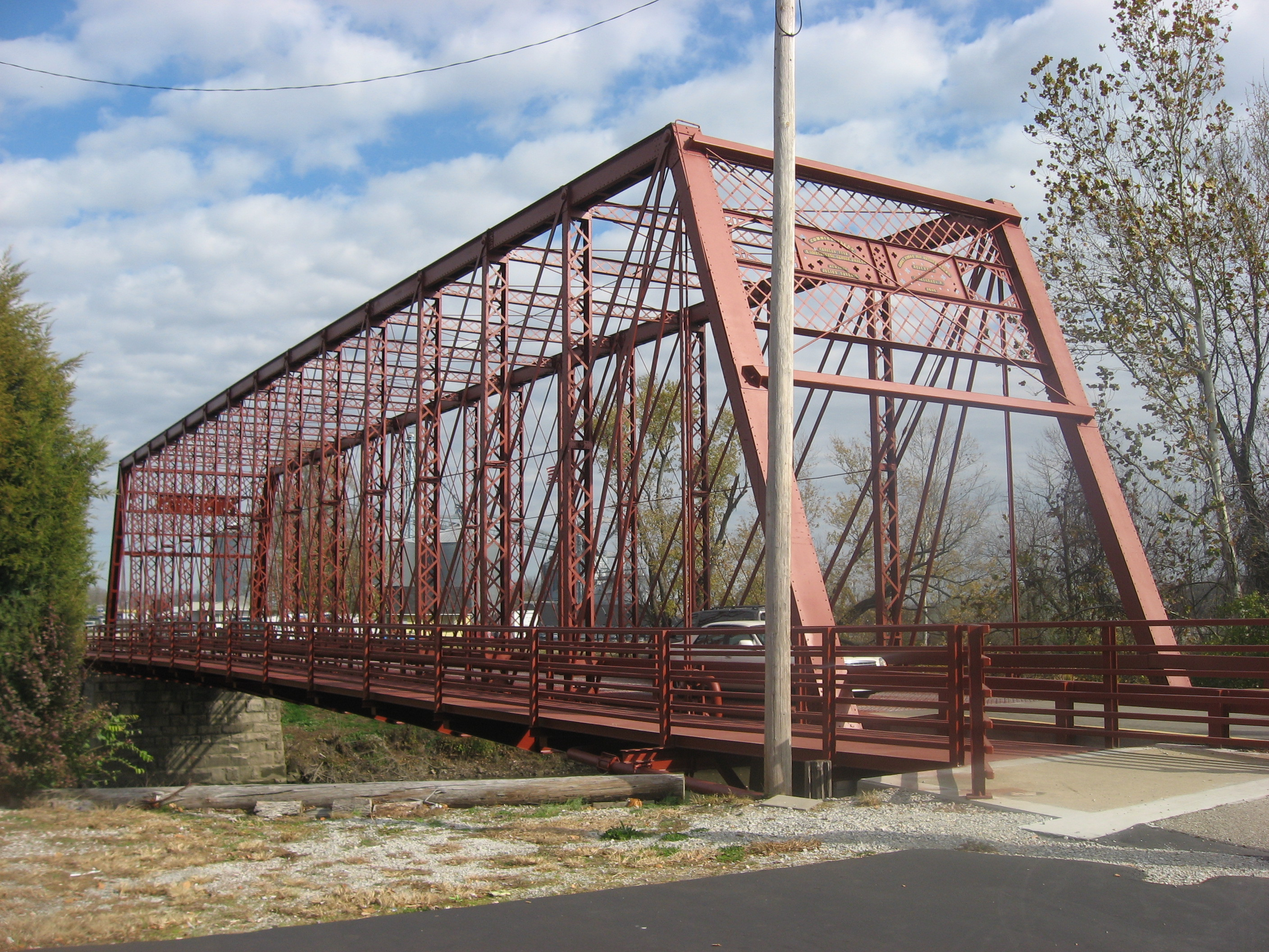 Southern portal and western (upstream) side of the George Street Bridge, which carries George Street/Main Street over Hogan Creek at the Importing Street (State Road 56) intersection in Aurora, Indiana, United States. Built in 1856, it is listed on the National Register of Historic Places, and it is part of a Register-listed historic district, the Downtown Aurora Historic District.